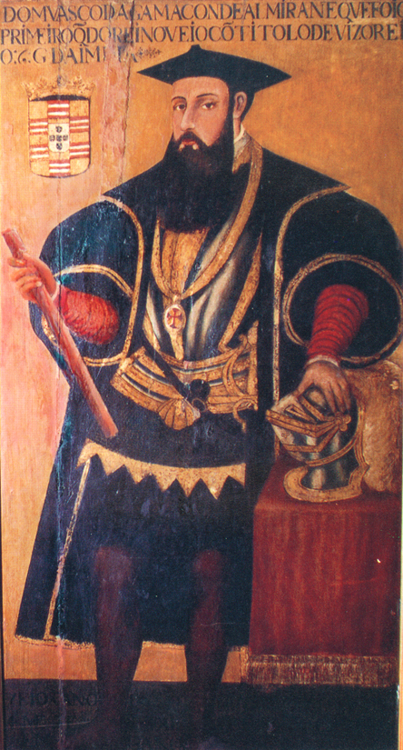 Portrait of Vasco da Gama, in the Gallery of the Viceroys of the Portuguese State of India, in Goa.